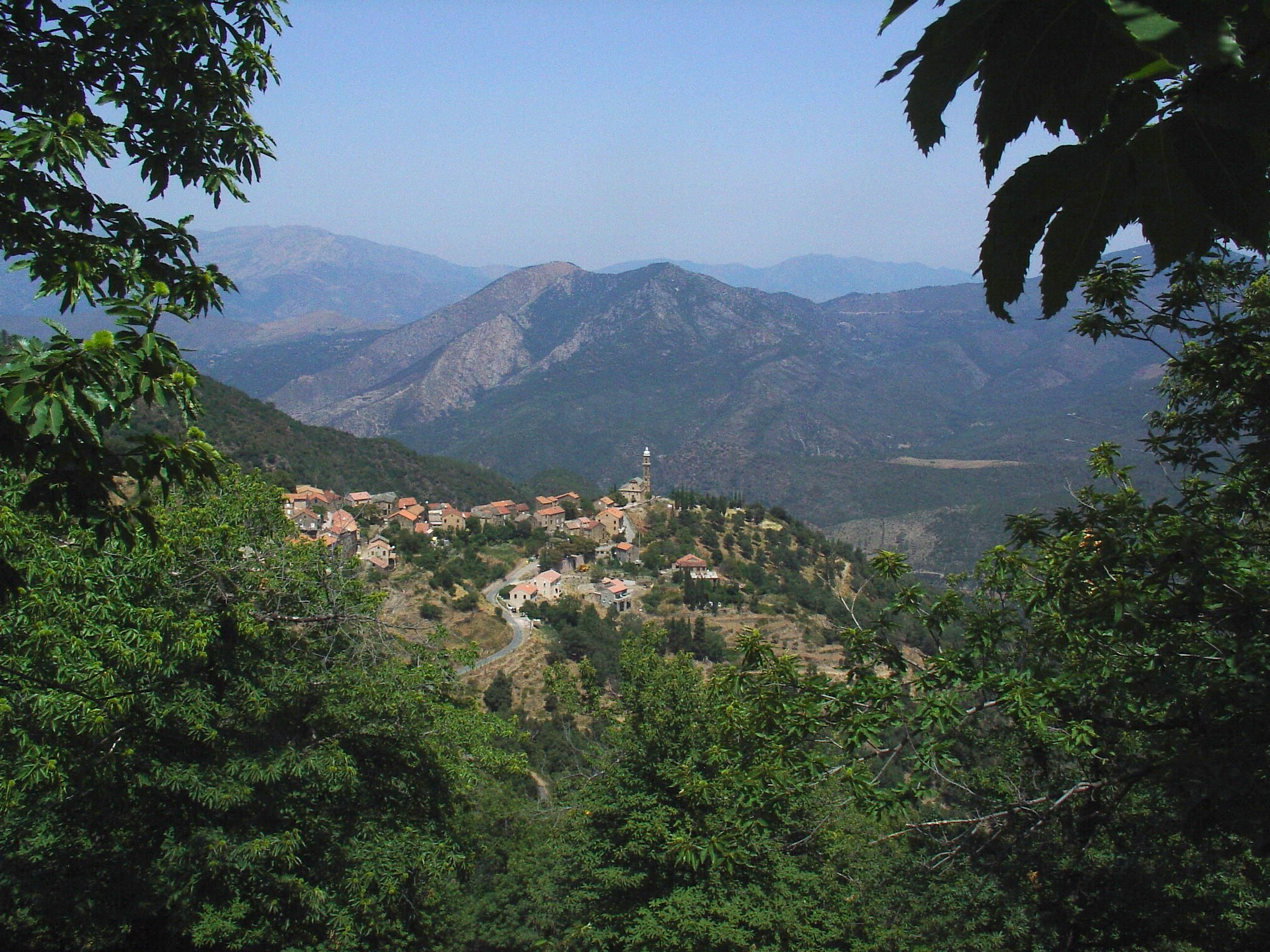 Aiti (Haute-Corse, France). Small village. by Maxime Agostini